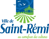 flag of the city of St-Rémi